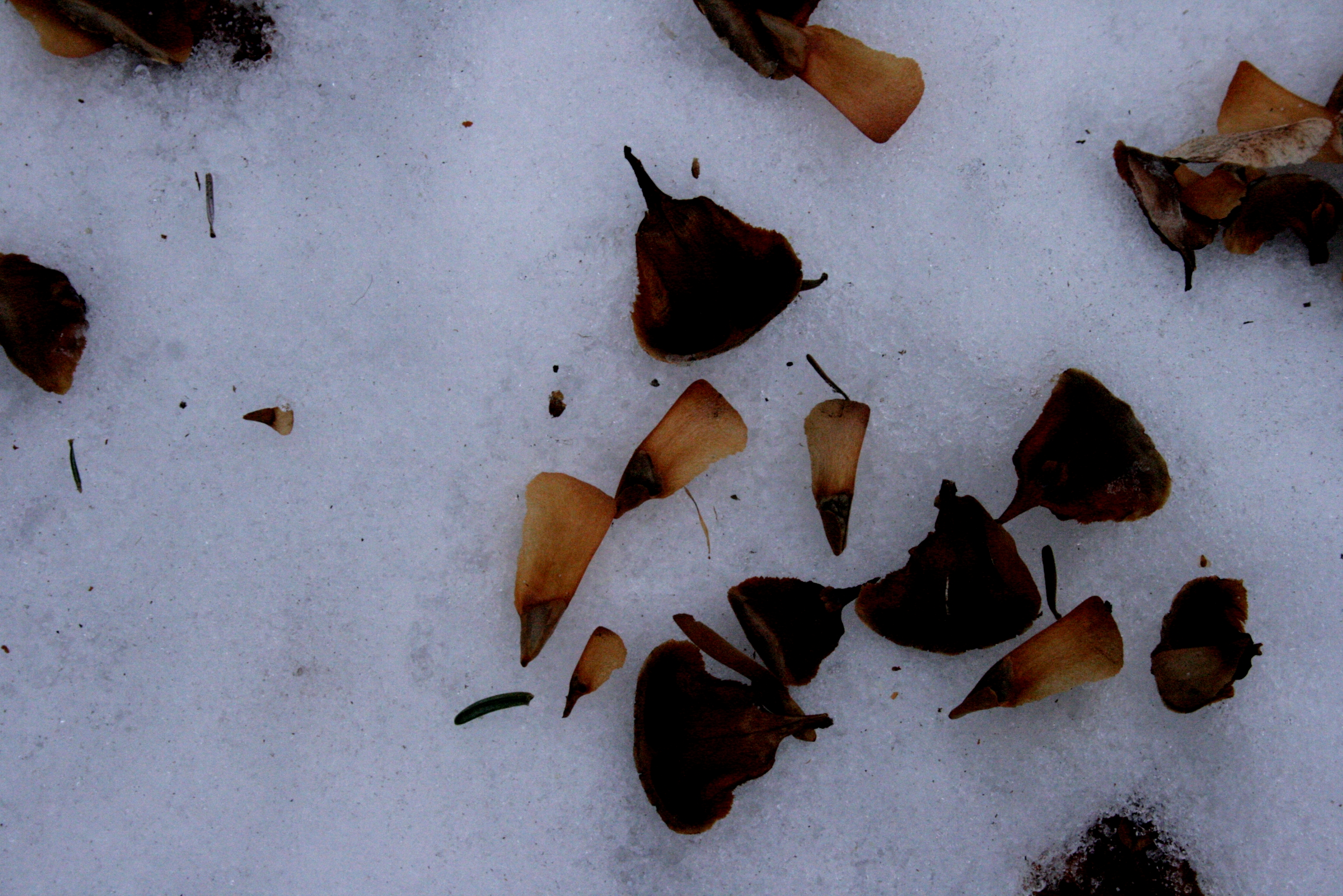 Seeds and scales from an Abies pinsapo, grown in Denmark. When the cones desintegrate the scales drop to the ground, while the winged seeds are born with the air current.